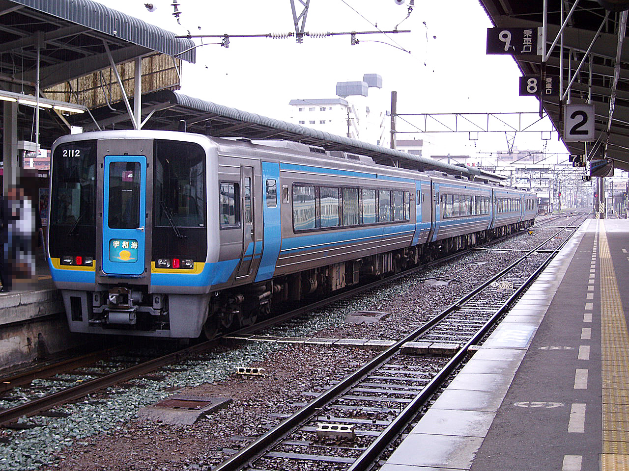 Shikoku Railway 2000 series Limit Express "Uwakai" JR四国2000系気動車 特急「宇和海」